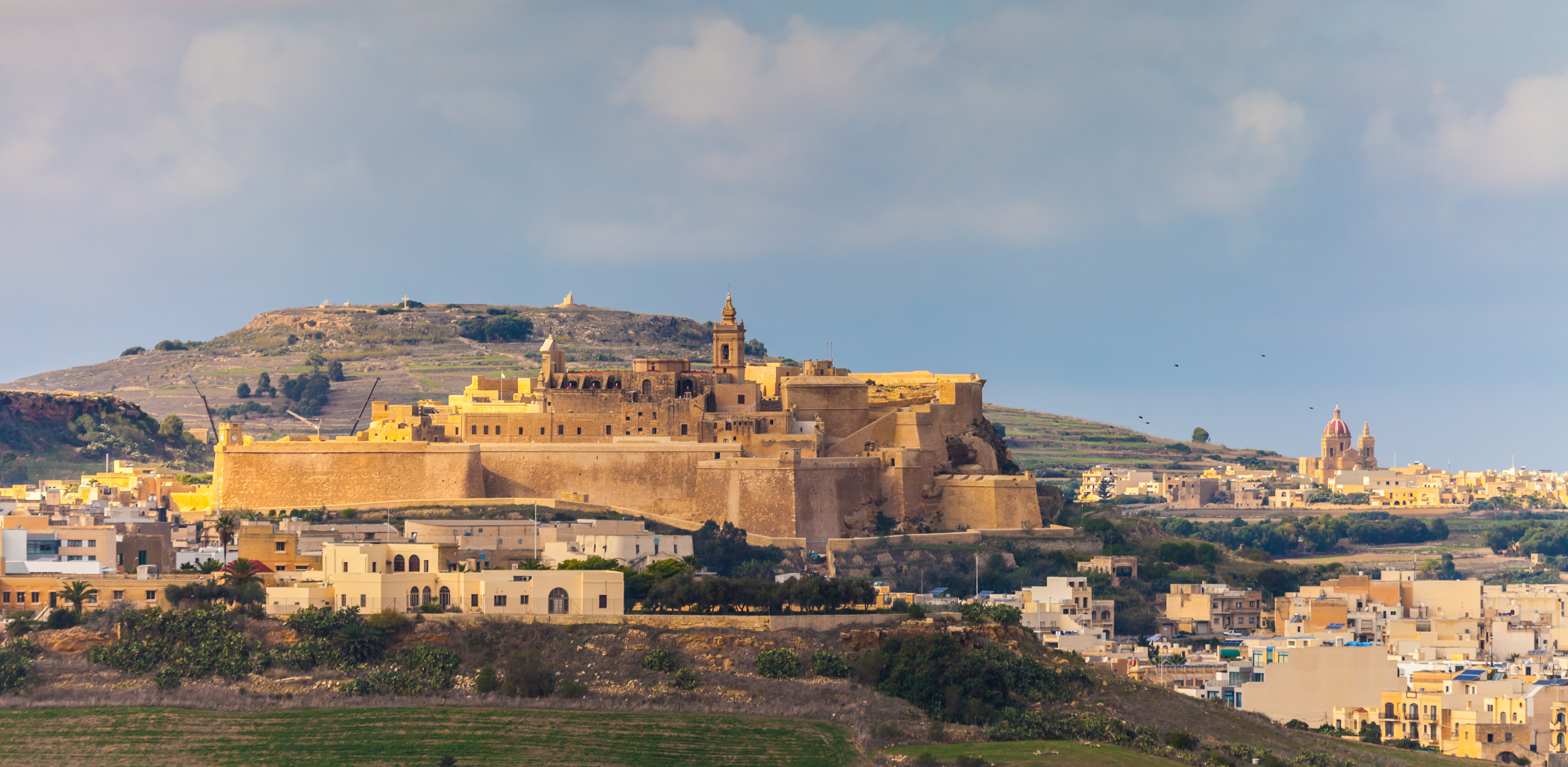 Citadel in Victoria (Rabat) on island of Gozo, Malta (2015). This media is about Maltese cultural property with inventory number 00003.